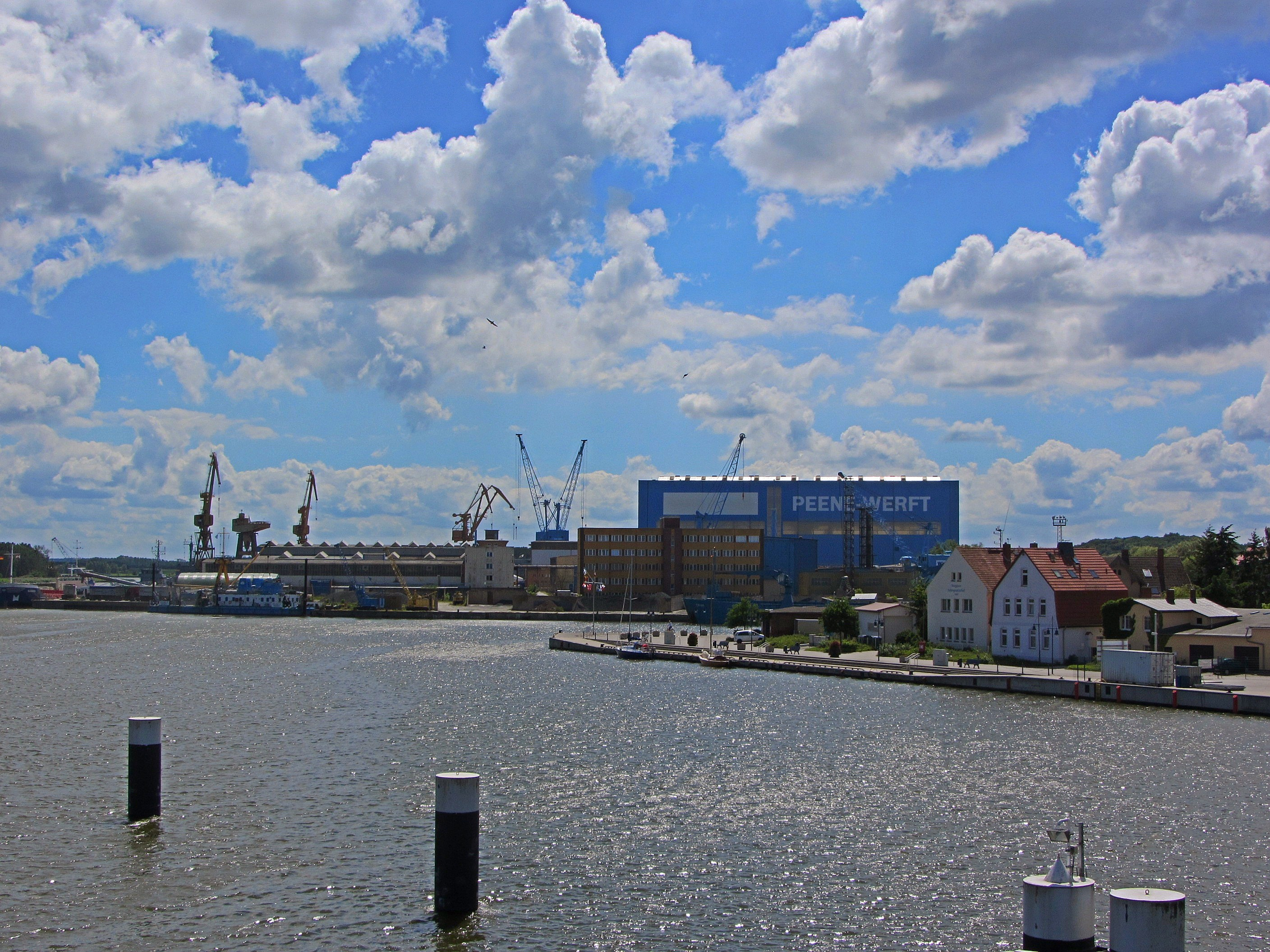 Peenestrom and Peene-Werft in Wolgast, district Vorpommern-Greifswald, Mecklenburg-Vorpommern, Germany